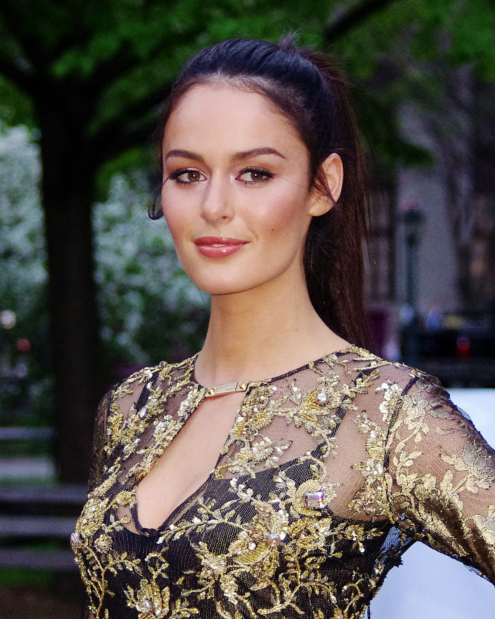 Nicole Trunfio at the Vanity Fair party for the 2012 Tribeca Film Festival.